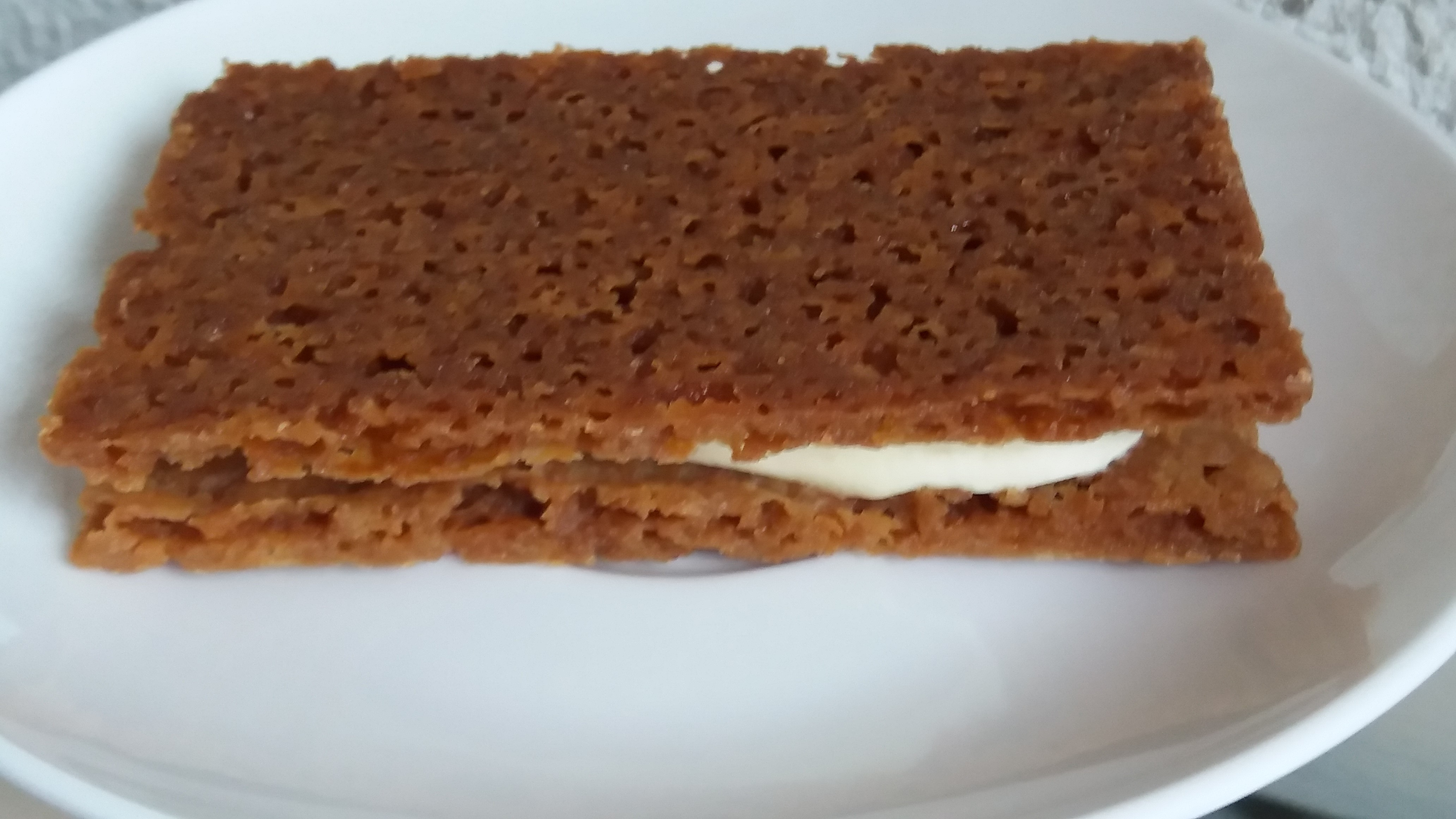 Belgian cake Tartine Russe